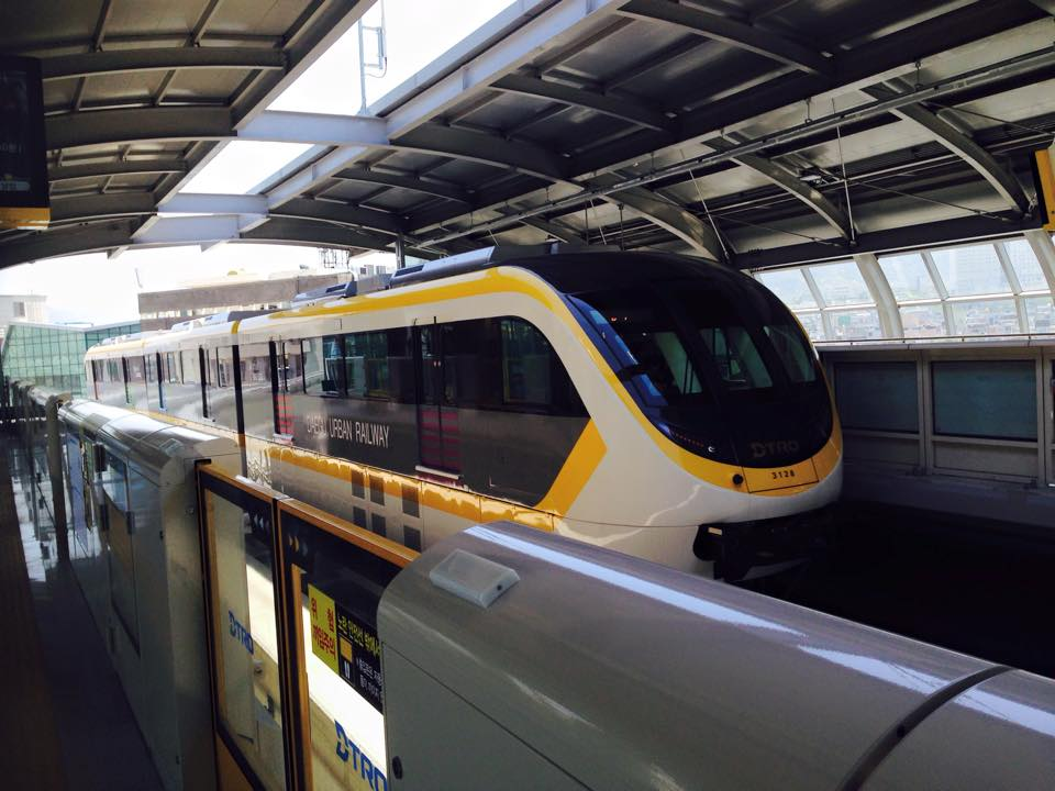 Daegu metro line3